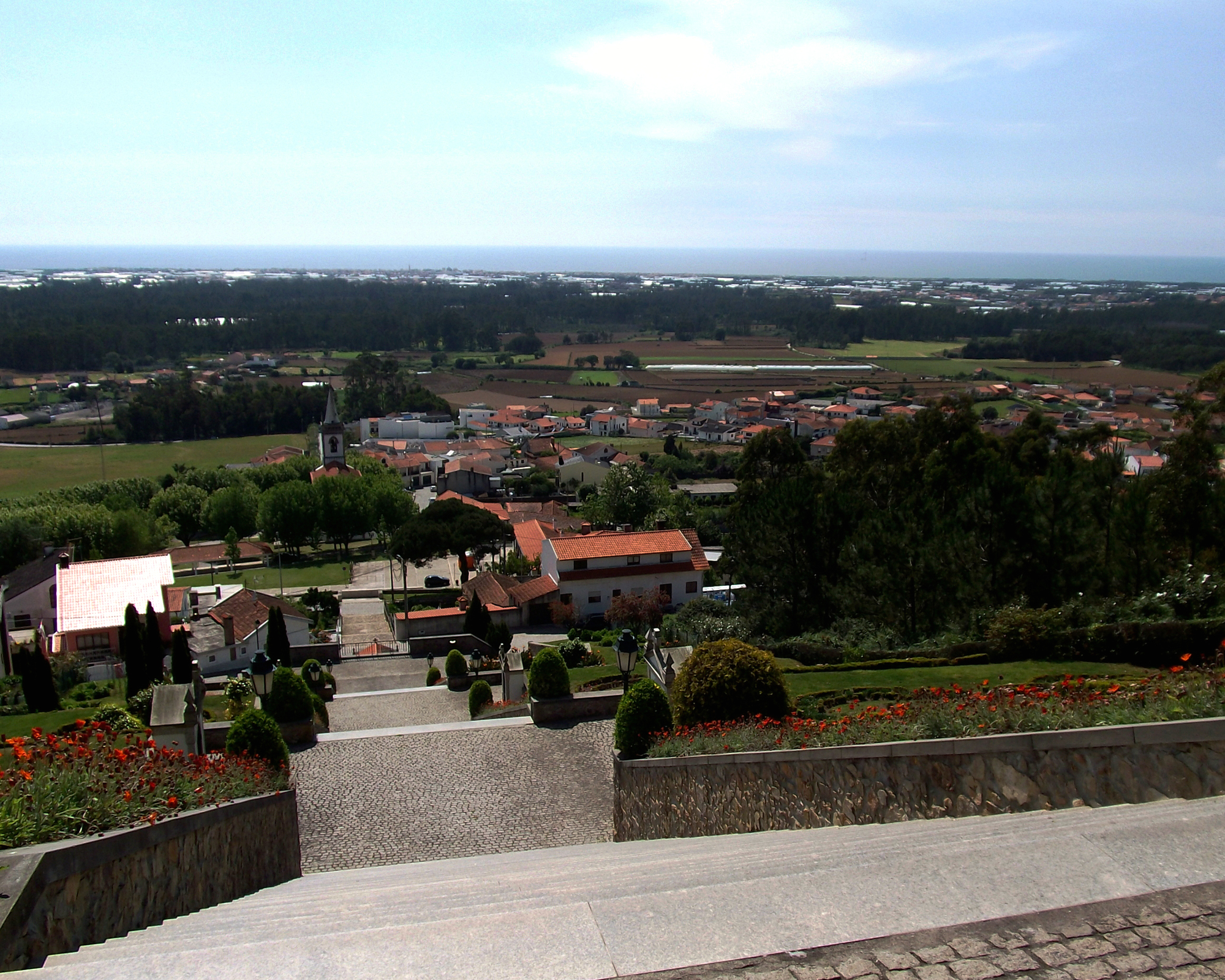 Senhora da Saude Hamlet, Laundos Parish, Póvoa de Varzim